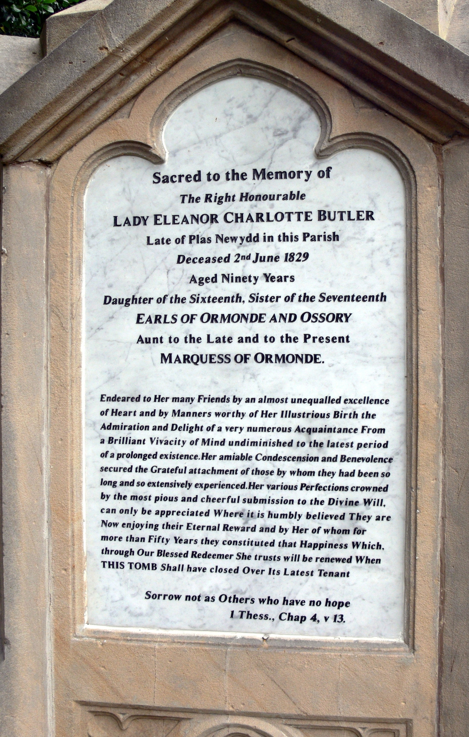 Llangollen ( Wales ). St.Collen parish church: Grave monument of the Ladies of Llangollen ( 19th century ) - Memorial to Lady Eleanor Butler ( + 1829 ).